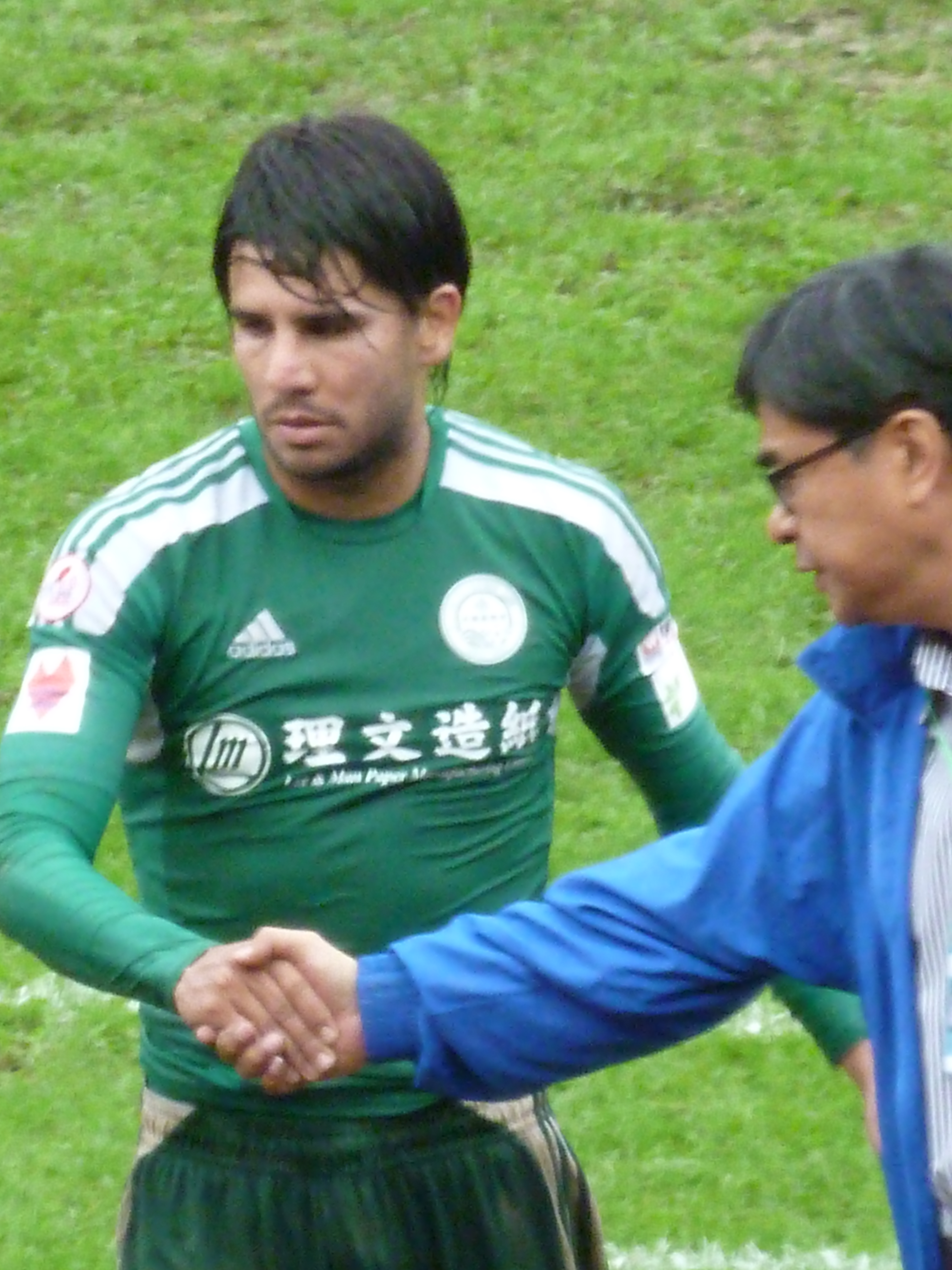 Naves Mesquita Aender (31 Mar 2013, Hong Kong First Division League, Tai Po vs Pegasus, Tai Po Sports Ground)中文（香港）: 安達 (31 Mar 2013, 香港甲組足球聯賽, 大埔 vs 飛馬, 大埔運動場)